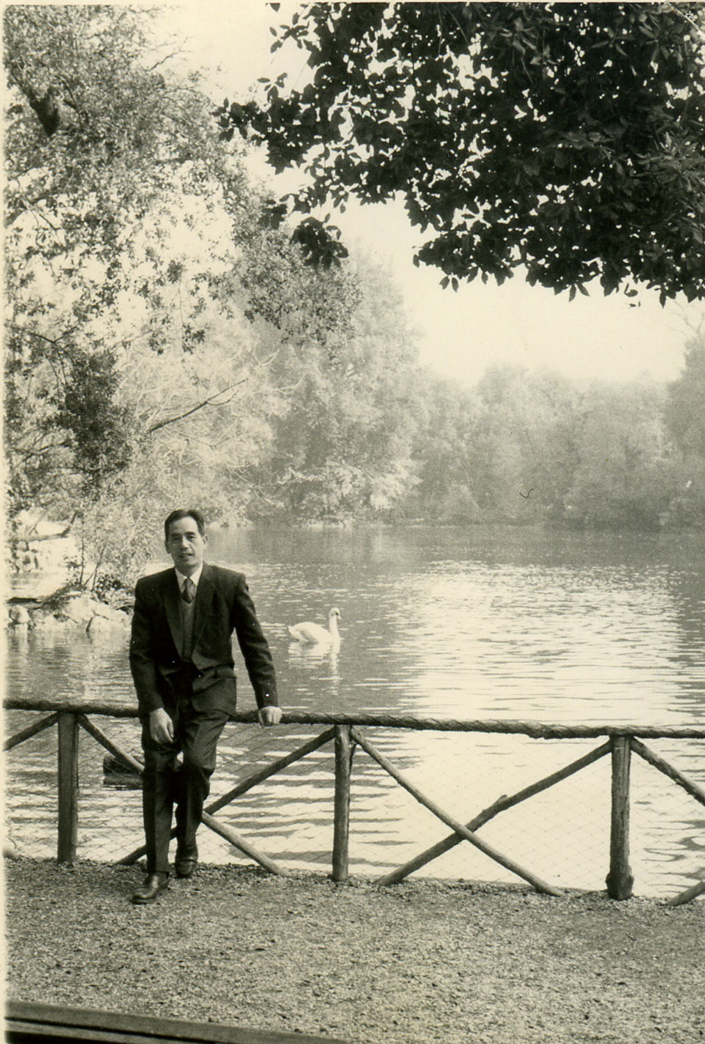 Chinese music composer Hwang Yau-tai photo circa late 50s at Villa Borghese in Italy. Photographer unknown